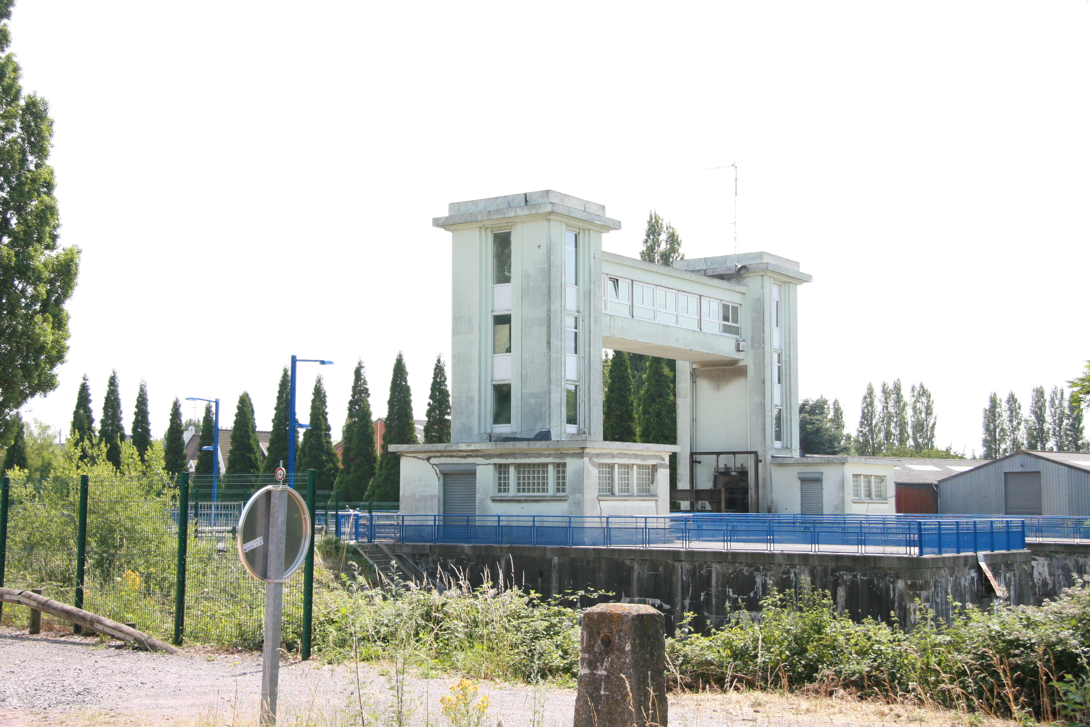 Picture of the Fontinettes' watergate, took at Arques in august 2010